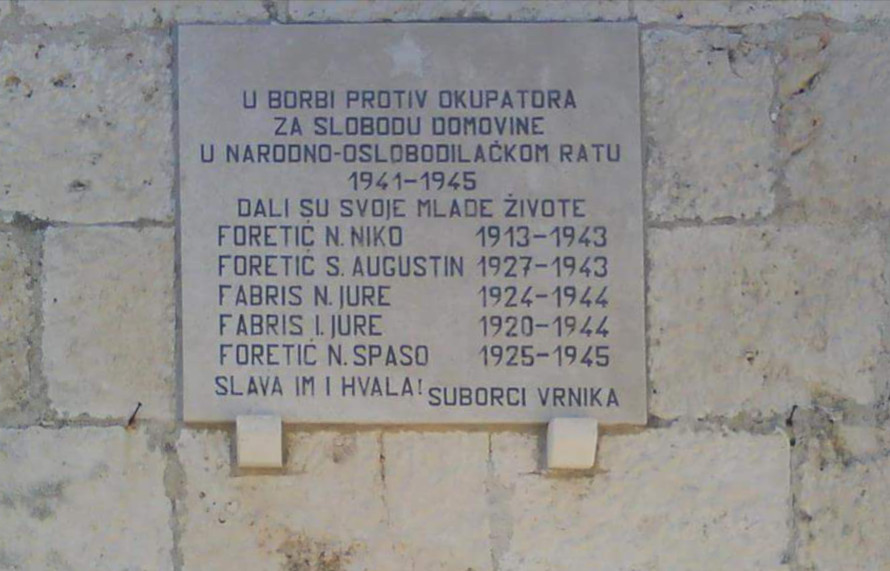 memorial plaque of died partisans, island of Vrnik